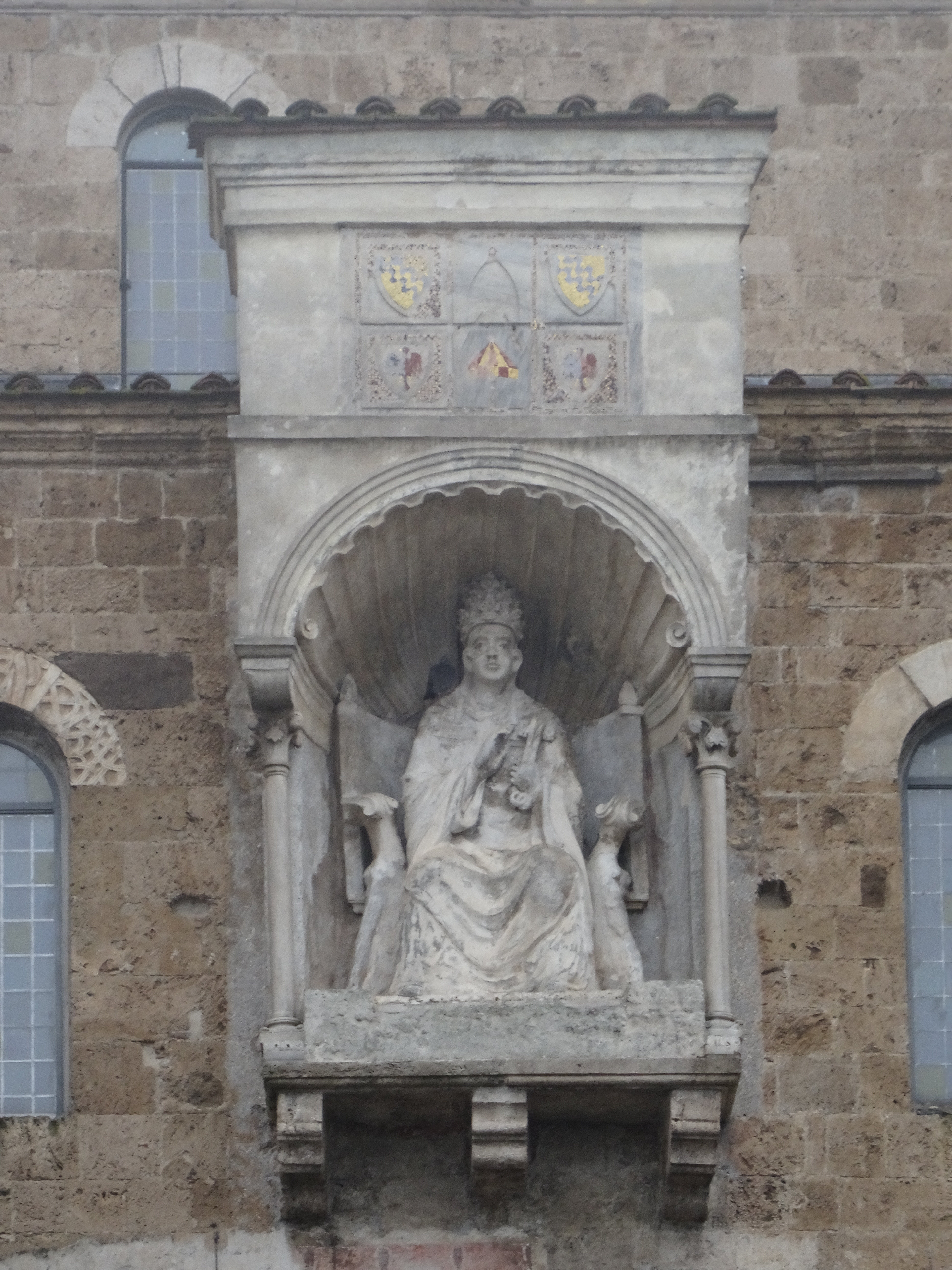 statua Bonifacio VIII